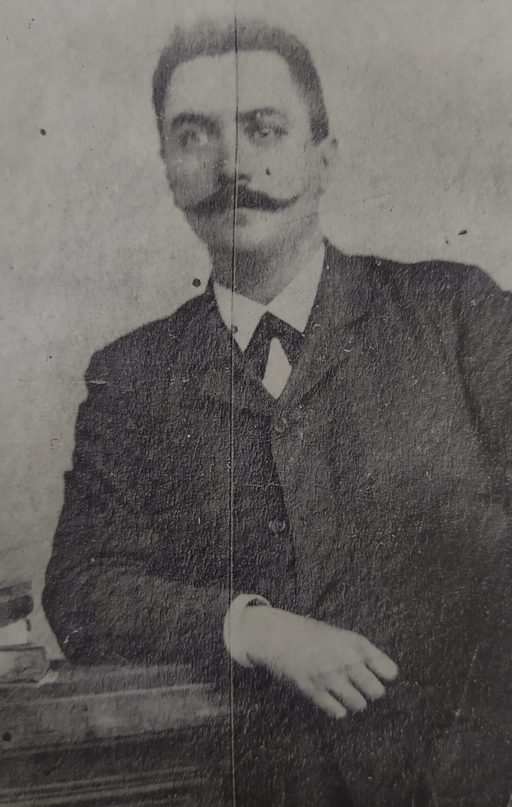 Stevan Bešević, Serbian journalist, writer and lawyer. Српски (ћирилица): Стеван Бешевић, српски адвокат, новинар, књижевник.